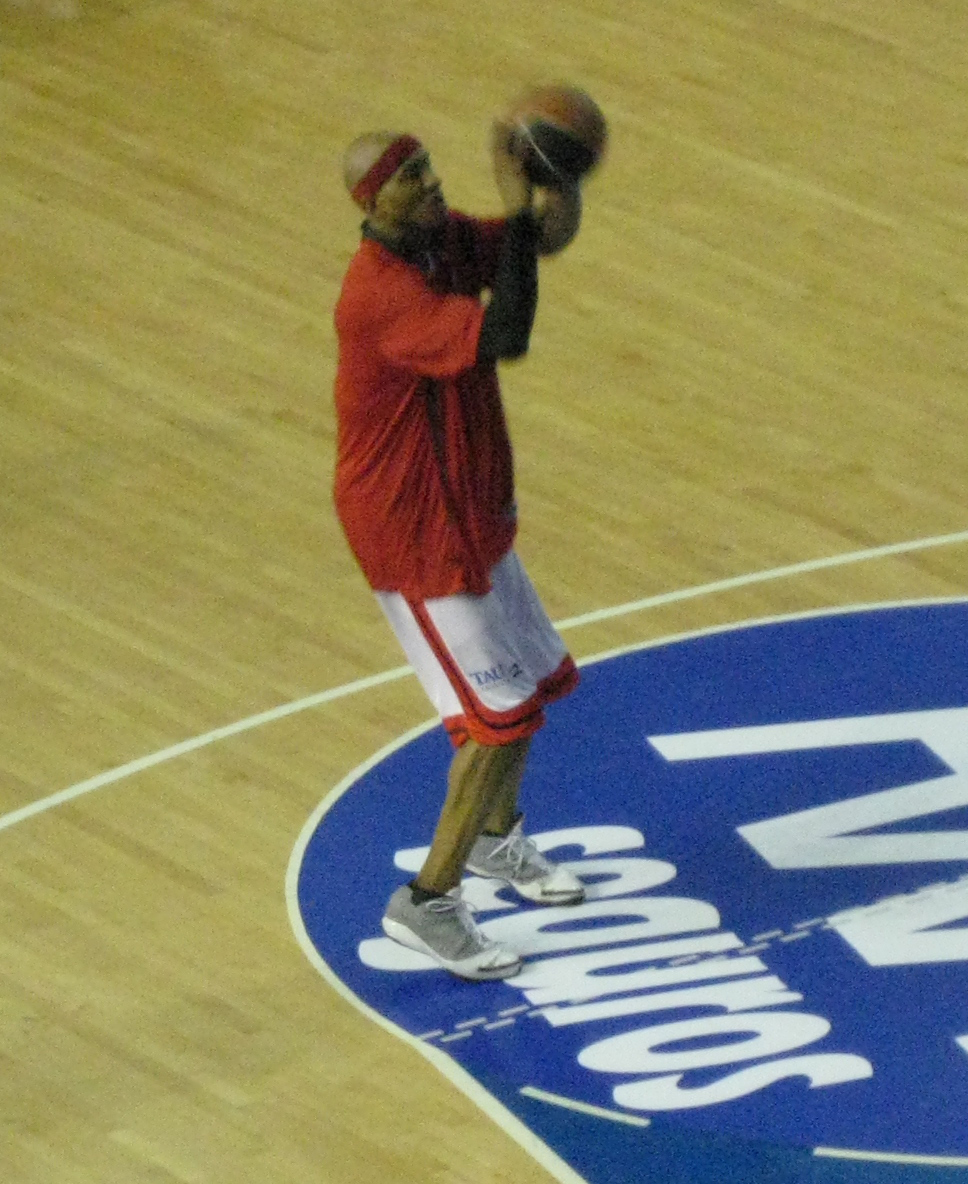 James Singleton warming up in the second game of the 2008 ACB Finals.